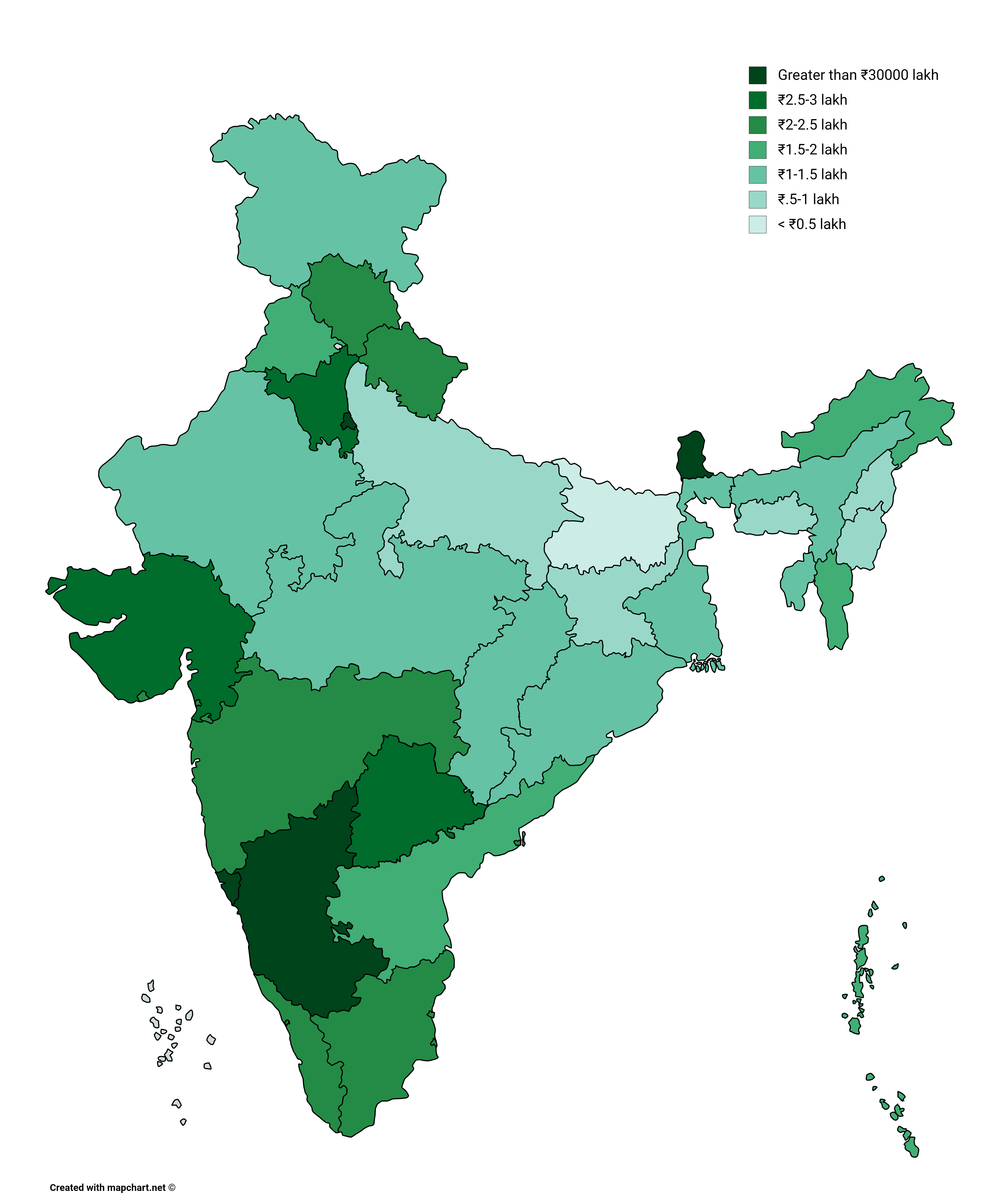 GDP per capita